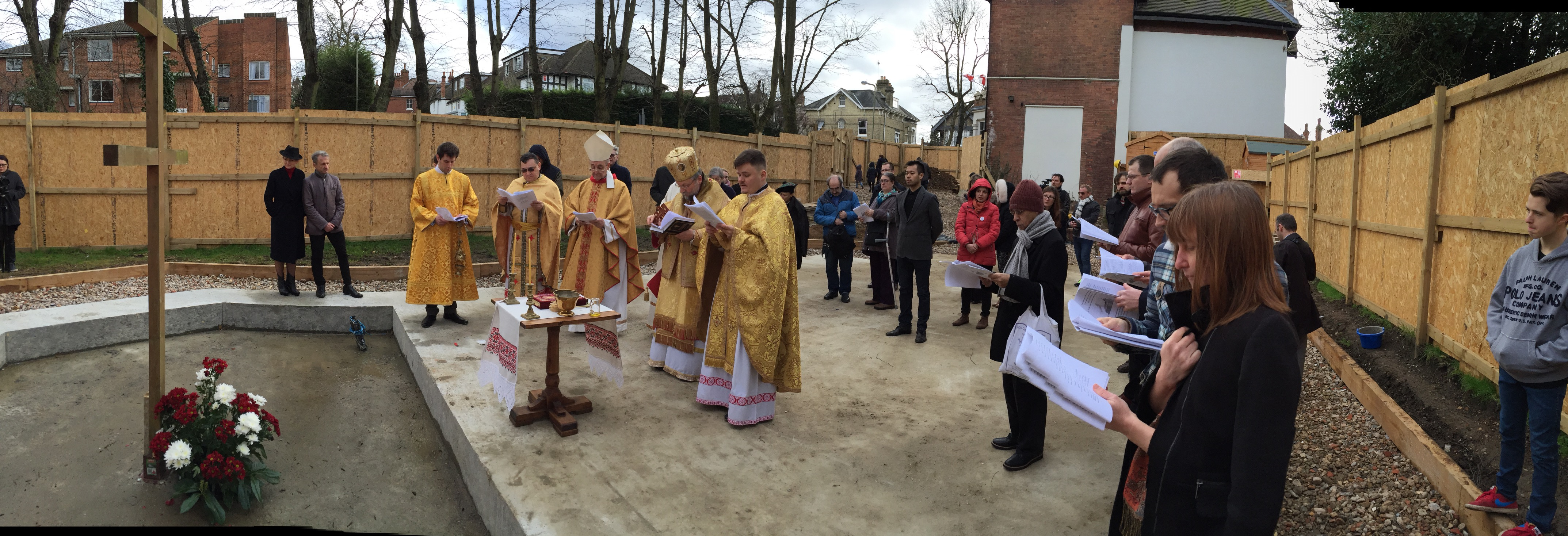 Ceremony on 7 February 2016 to bless the cornerstone at the beginning of construction of the church of St Cyril of Turaŭ and All the Patron Saints of the Belarusian People, Woodside Park, London N12